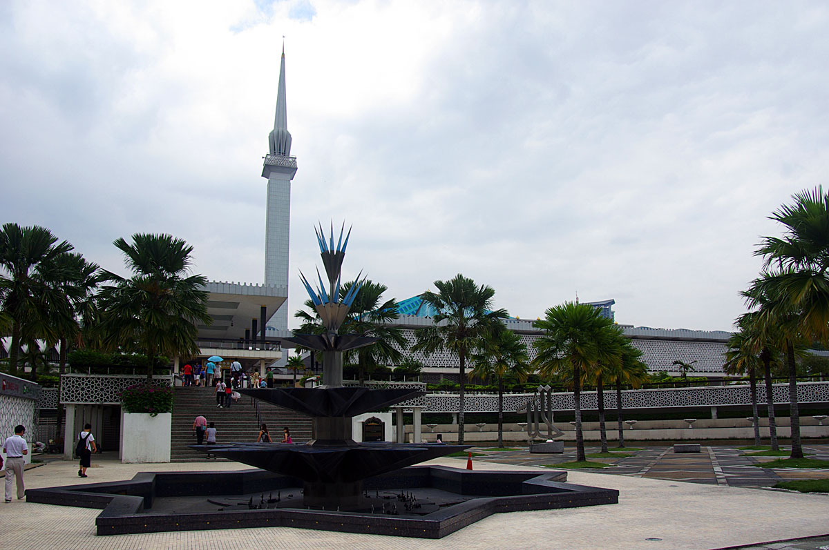 Masjid Negara (National Mosque), Kuala Lumpur, Malaysia